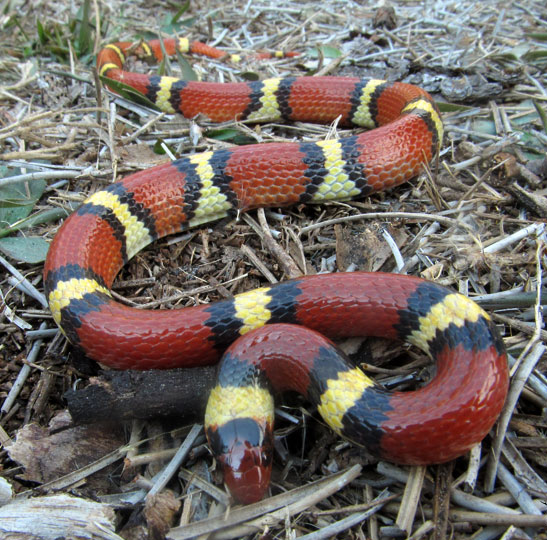 Adult Scarlet King Snake, Florida Locale